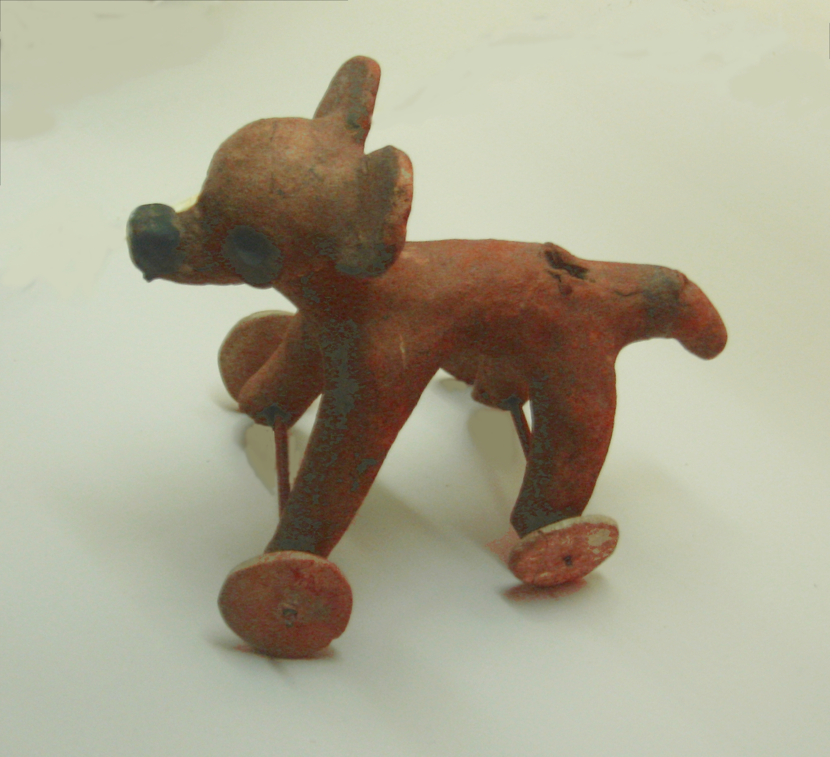 Wheeled figurine, probably from Veracruz. The nose and eyes are covered with black bitumen (chapopote).